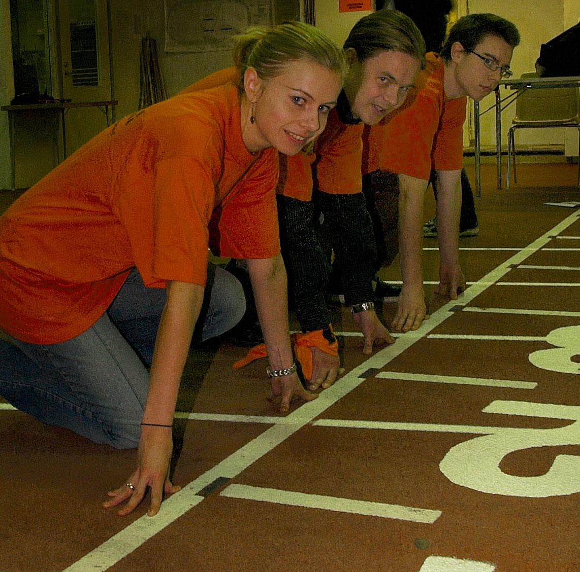 Finnish Member of the European Parliament (since 2009 election) Riikka Manner (in foreground) with Rieti Jauhiainen (kok., in center) and Michael Laakasuo (vihr., on right) in Kuopio, September 13, 2006. The trio ran for the Finnish Parliament in 2007 election.